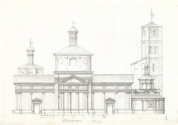 Rear view of the church of Santa Maria presso San Satiro